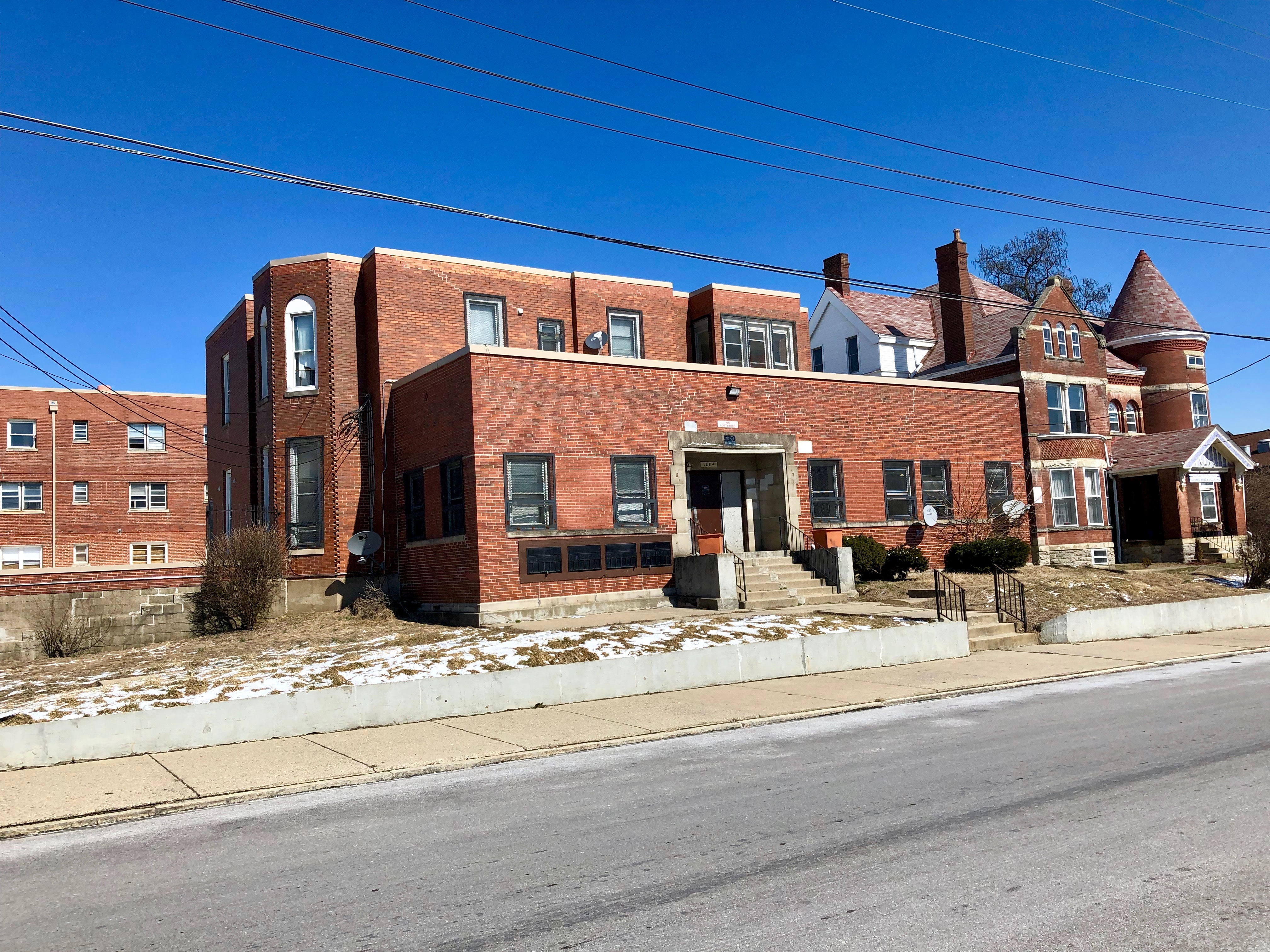 Manse Hotel and Annex, Walnut Hills, Cincinnati, OH Picture of the annex